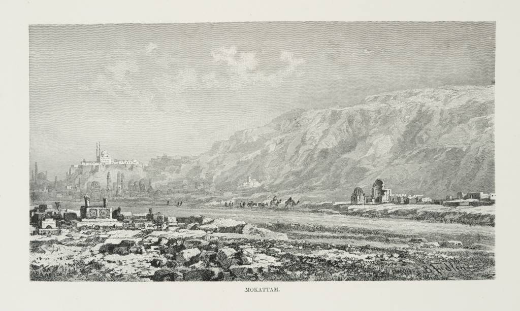 Mokattam rising in the distance past a road.